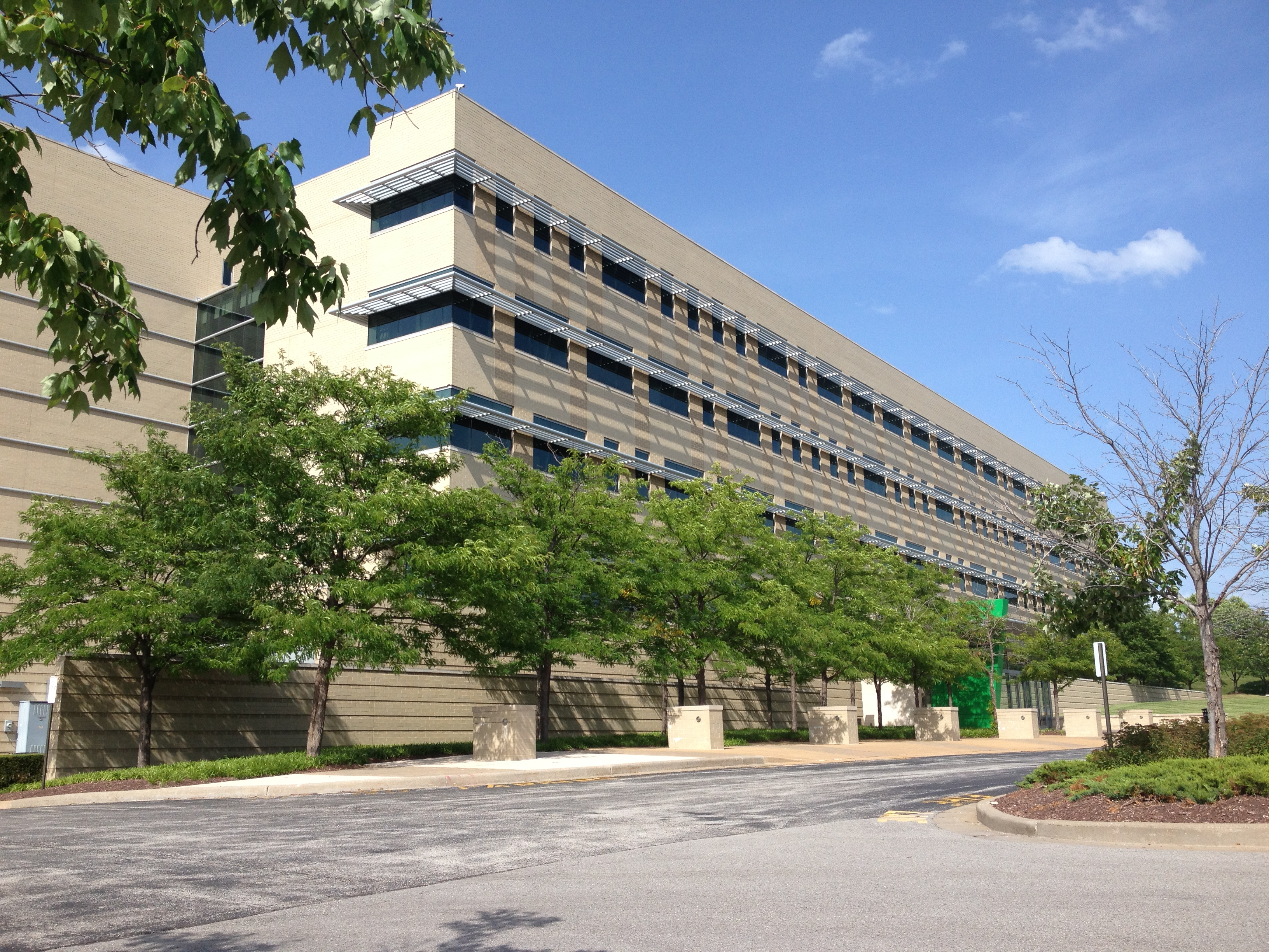 Image of the southern facade of a building in St. Louis, currently (2014) occupied by CenturyLink. The windows spell out, in Morse, the name of Brooks Fiber Properties, the company for which the building was intended as Corporate Headquarters, though BFP was purchased by Worldcom before the building was occupied.